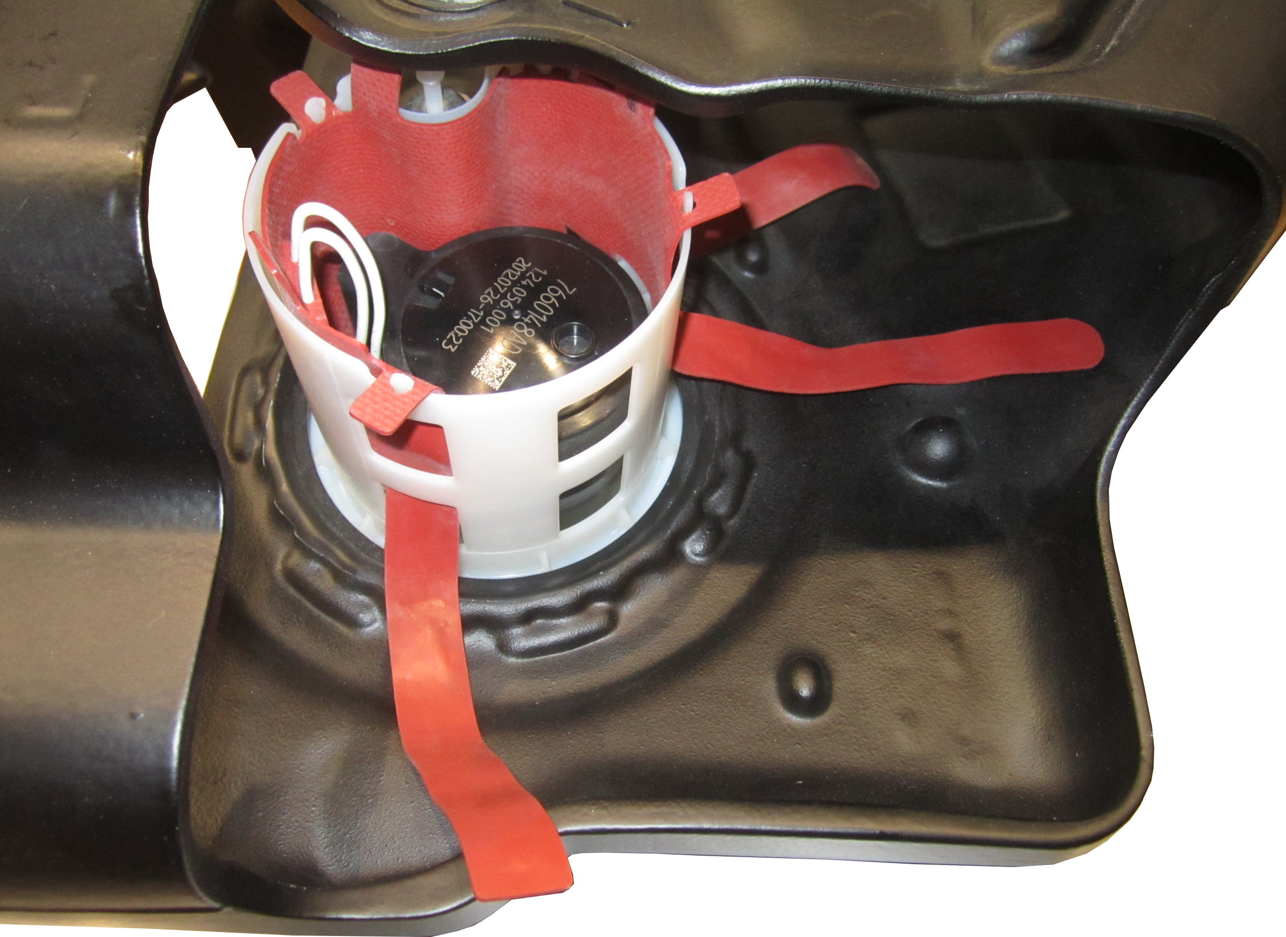 Inside of an Adblue/Diesel exhaust fluid Tank with pump and the red heating